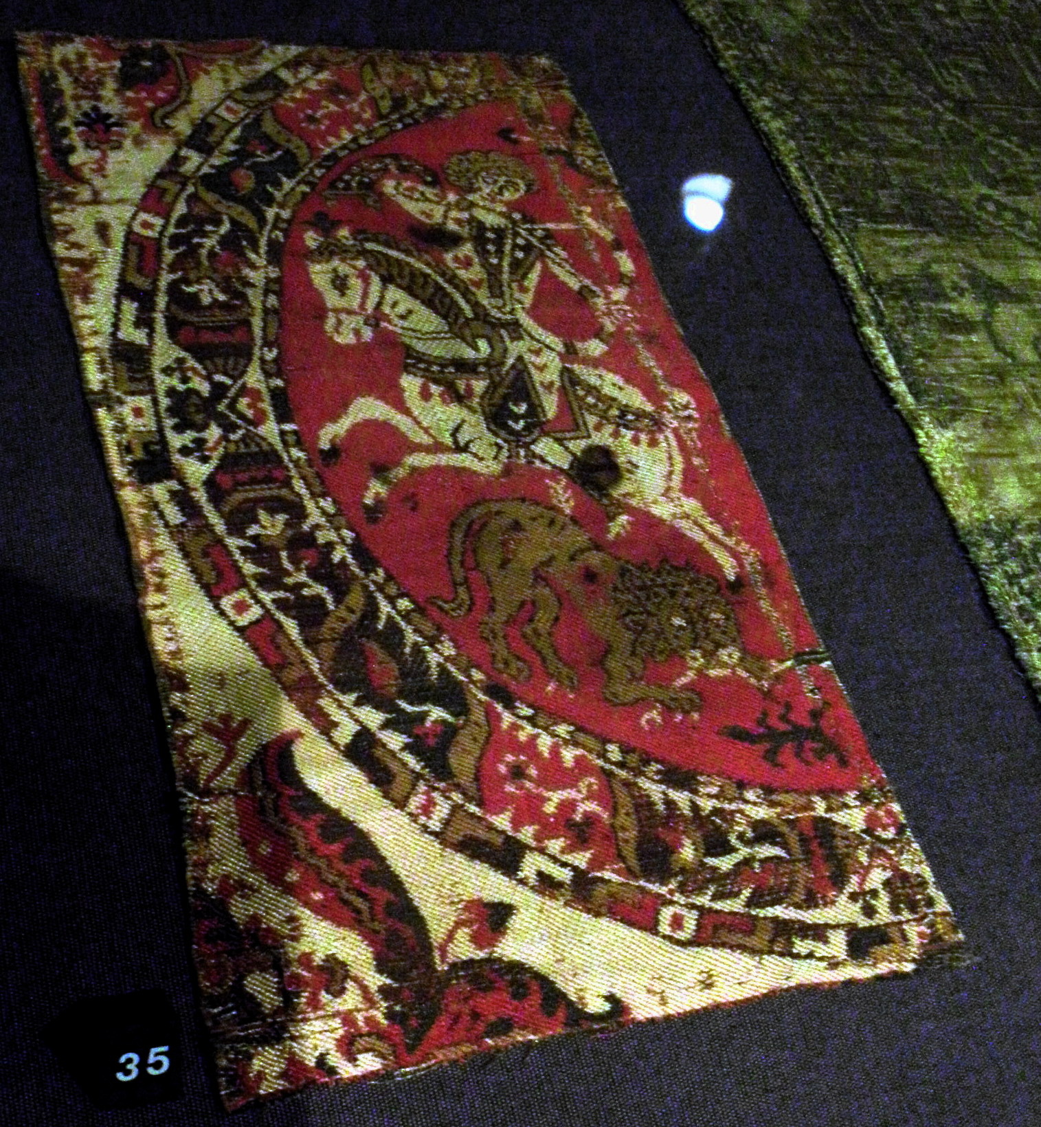 Horseman and lion on silk (24 x 13.8cm). Byzantium or Middle East, 8th c. Treasury of the Basilica of Saint Servatius, Maastricht